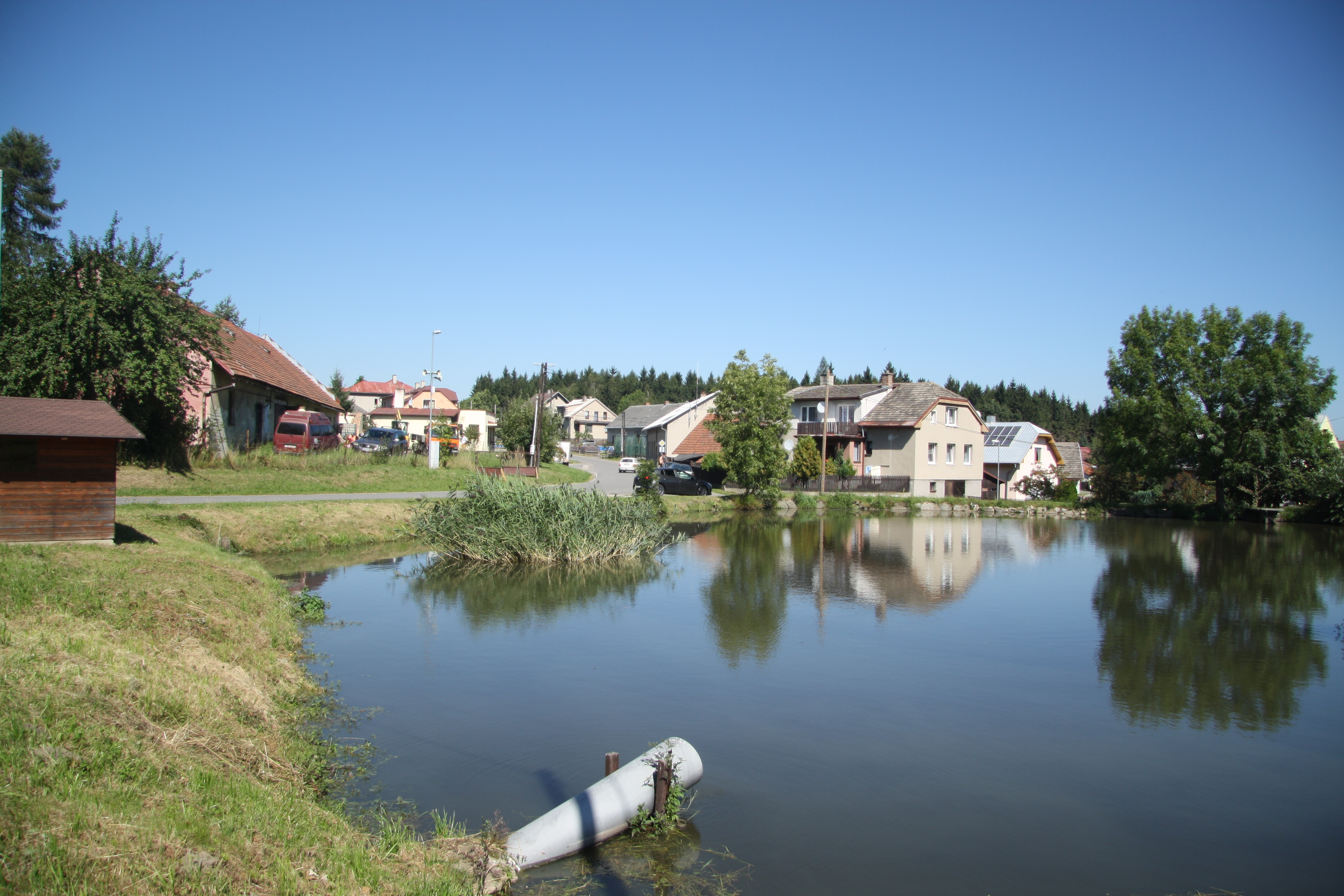 Center and village pond in Chroustov, Bohdalov, Žďár nad Sázavou District.